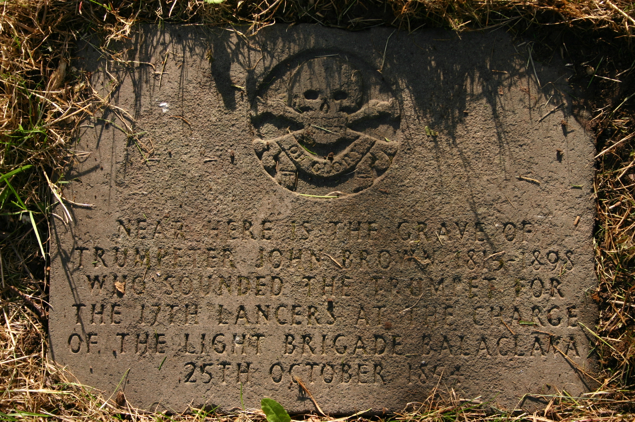 This marker indicates that the grave of John Brown trumpeter for the 17th Lancers at the Charge of the Light Brigade at Balaclava 25th October 1854 - The marker is at St Michaels Church, Lichfield, Staffordshire, England.